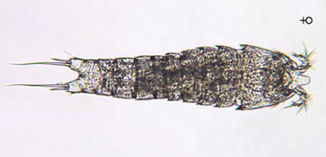 Heteropsyllus nr. nunni copepod, female